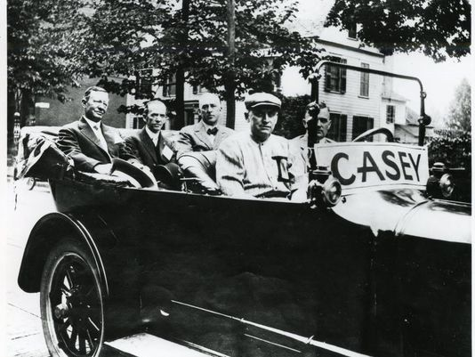 Photograph of pitcher Dan Casey, in front passenger seat, in automobile during "Casey Day" parade, 1915